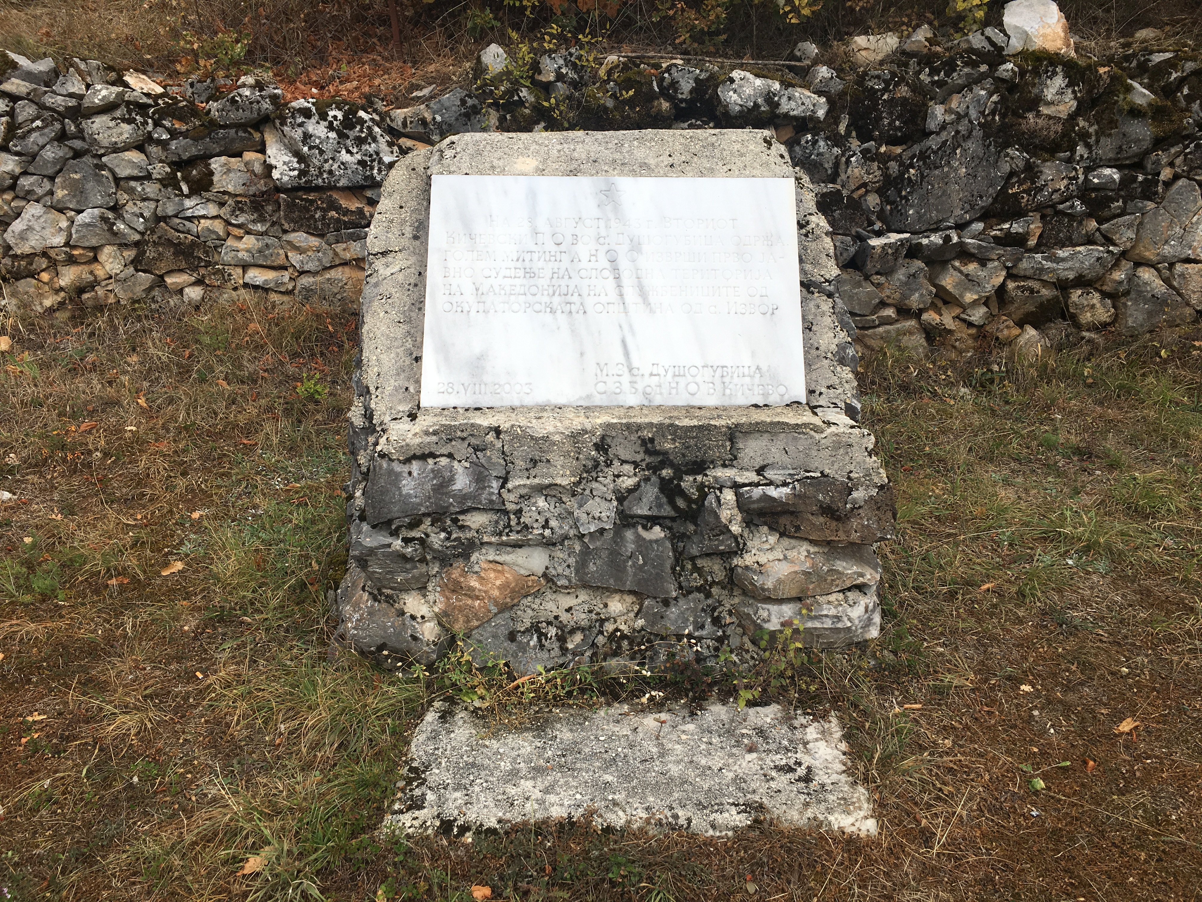 Wikiexpedition to Kopačka